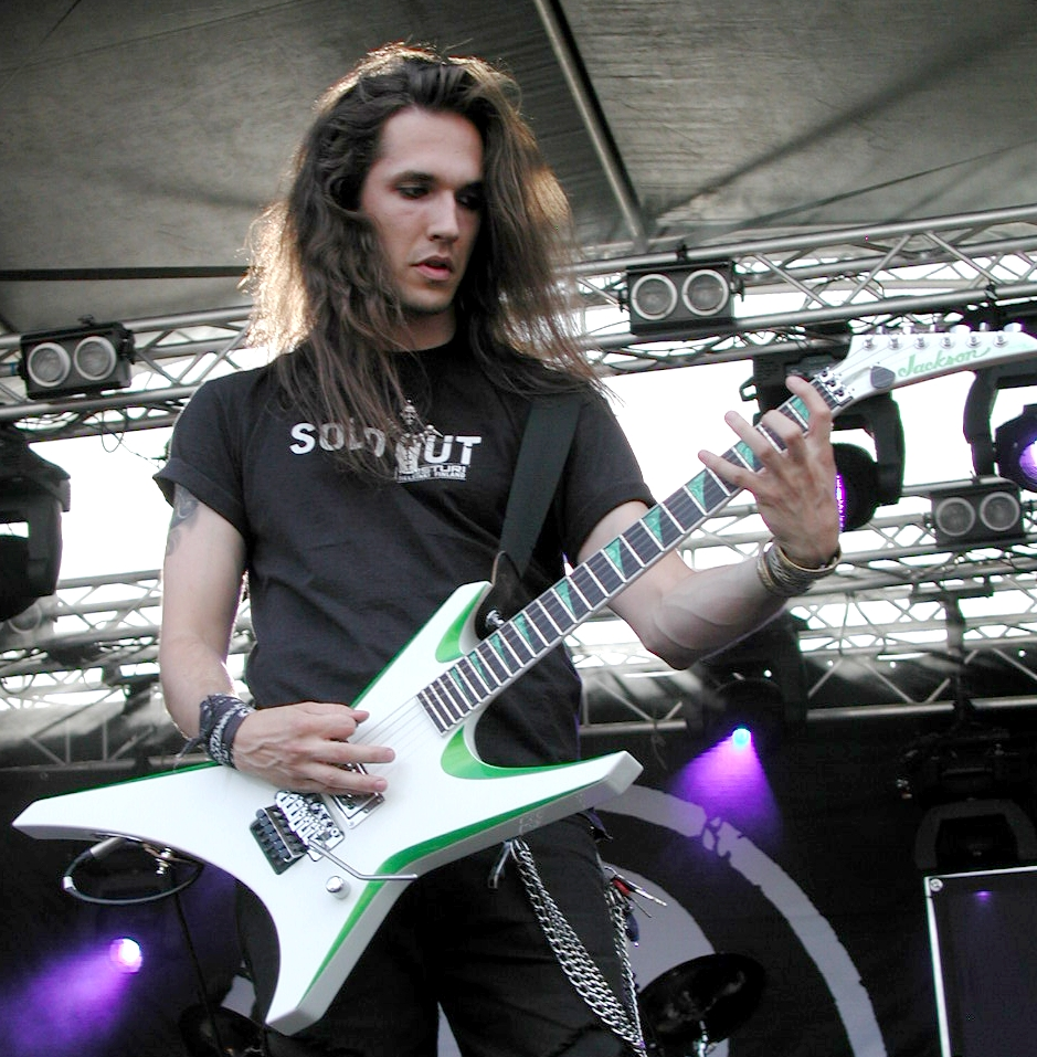 Ben Varon in Tammela FINLAND 1st of April 2009, Photo: Noora Hyväri